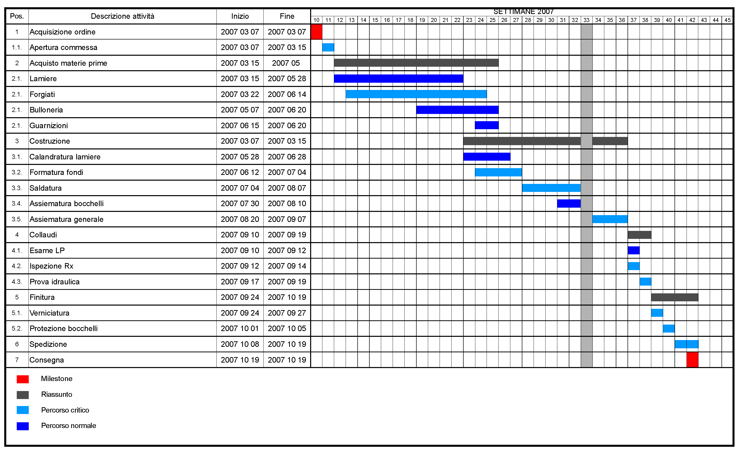 Example of a Gantt chart (Italian)